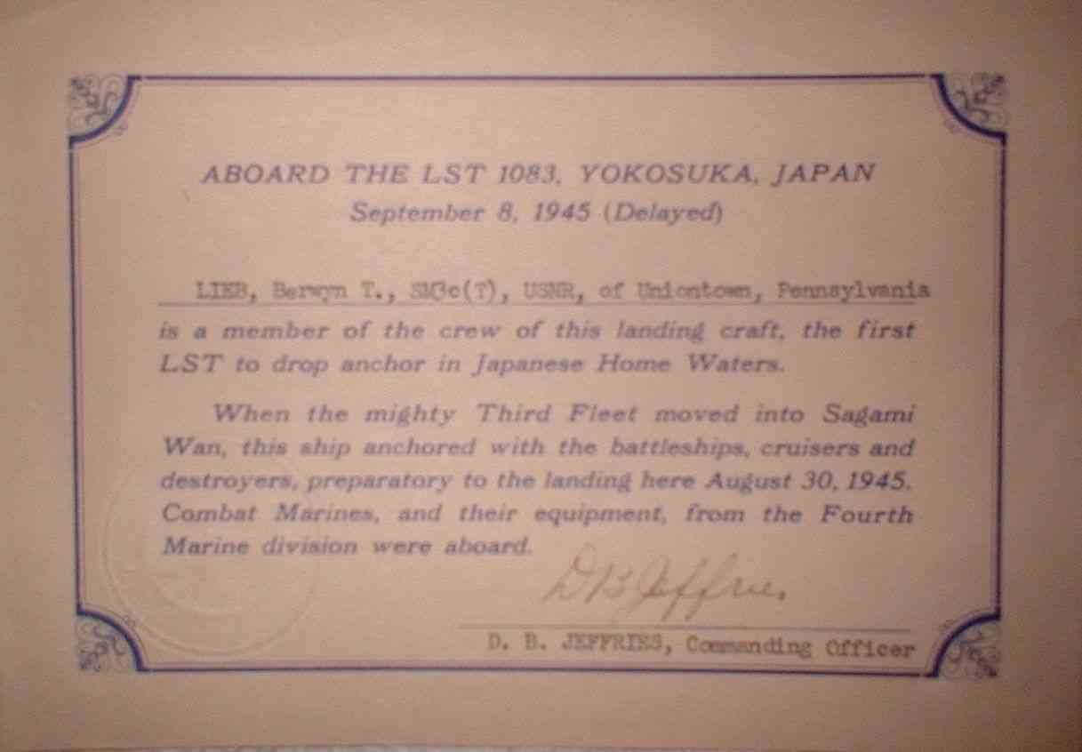 Certificate showing LST 1083 was the first LST to drop anchor in Japanese waters at the close of WWII